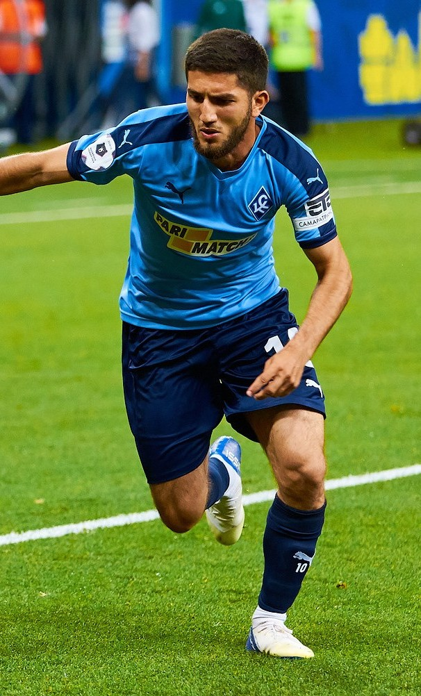 Azer Aliyev, Ayaz Guliyev